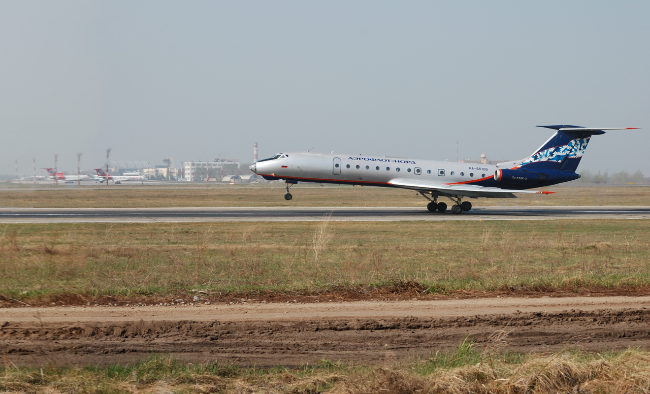 Landing Tu-134A-3 Aeroflot Nord RA-65108 on 15 runway, Kurumoch international airport, Samara, Russia